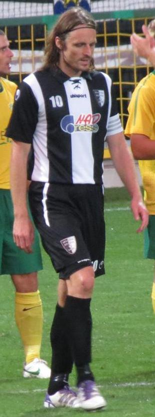 Photo - Slovak footballer Martin Černáček